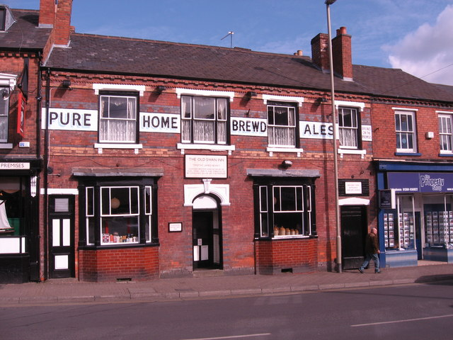 Olde Swan Inn (Ma Pardoes) An absolute gem of an unspoilt pub with a decoratve enamel ceiling. also the home of the Olde Swane Brewery